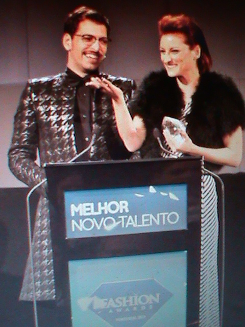 Os Burgueses - Fashion Awards Portugal 2011